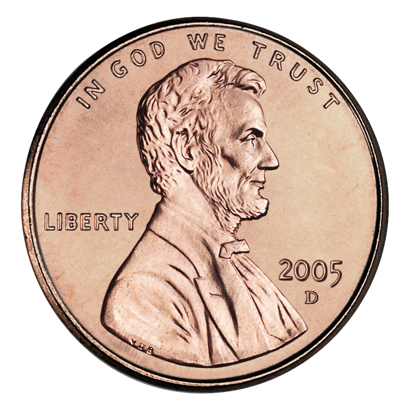 2005 US cent, obverse side. Used Photoshop to drop background, and SuperPNG plug-in to save as interlaced compressed PNG.